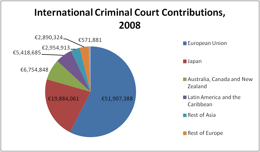 Assessed contributions to the International Criminal Court's budget, 2008. (Data from Report of the Committee on Budget and Finance on the work of its tenth session, Annex I (pp. 20-21), 26 May 2008.) Note: Includes contributions by the 105 states that were members of the court as of April 2008. Does not include contributions in 2008 by Madagascar, which became a state party on 1 June 2008. (Anyway, Madagascar's contributions are too small to affect the result.) The regional groupings are as follows: Latin America and the Caribbean (€5,418,685): Antigua and Barbuda, Argentina, Barbados, Belize, Bolivia, Brazil, Colombia, Costa Rica, Dominica, Dominican Republic, Ecuador, Guyana, Honduras, Mexico, Panama, Paraguay, Peru, Saint Kitts and Nevis, Saint Vincent and the Grenadines, Trinidad and Tobago, Uruguay, Venezuela. Japan (€19,884,061). Rest of Asia (€2,954,913): Afghanistan, Cambodia, Fiji, Jordan, Marshall Islands, Mongolia, Nauru, Republic of Korea, Samoa, Tajikistan, Timor-Leste. Africa (€571,881): Benin, Botswana, Burkina Faso, Burundi, Central African Republic, Chad, Comoros, Congo, Democratic Republic of the Congo, Djibouti, Gabon, Gambia, Ghana, Guinea, Kenya, Lesotho, Liberia, Malawi, Mali, Mauritius, Namibia, Niger, Nigeria, Senegal, Sierra Leone, South Africa, Uganda, United Republic of Tanzania, Zambia. European Union (€51,907,388): The 26 EU countries that are parties to the ICC (i.e. every EU state except the Czech Republic, which signed in 2009). Rest of Europe (€2,890,324): Albania, Andorra, Bosnia & Herzegovina, Croatia, Georgia, Iceland, Liechtenstein, Montenegro, Norway, San Marino, Switzerland, Serbia, The former Yugoslav Rep. Of Macedonia. Australia, Canada and New Zealand (€6,754,848). This is the first image I've uploaded so I'd appreciate any critical feedback.